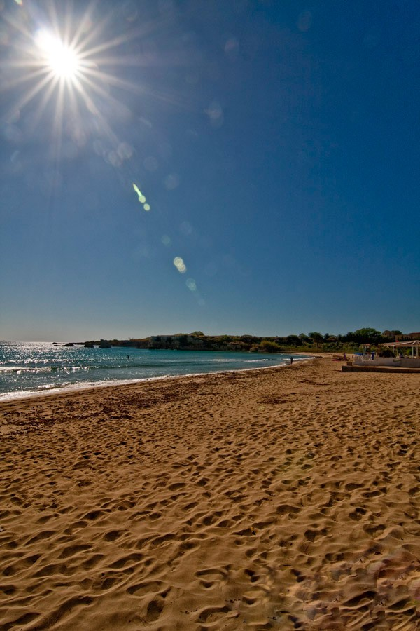 Beach of Fontane Bianche (Syracuse, Sicily)